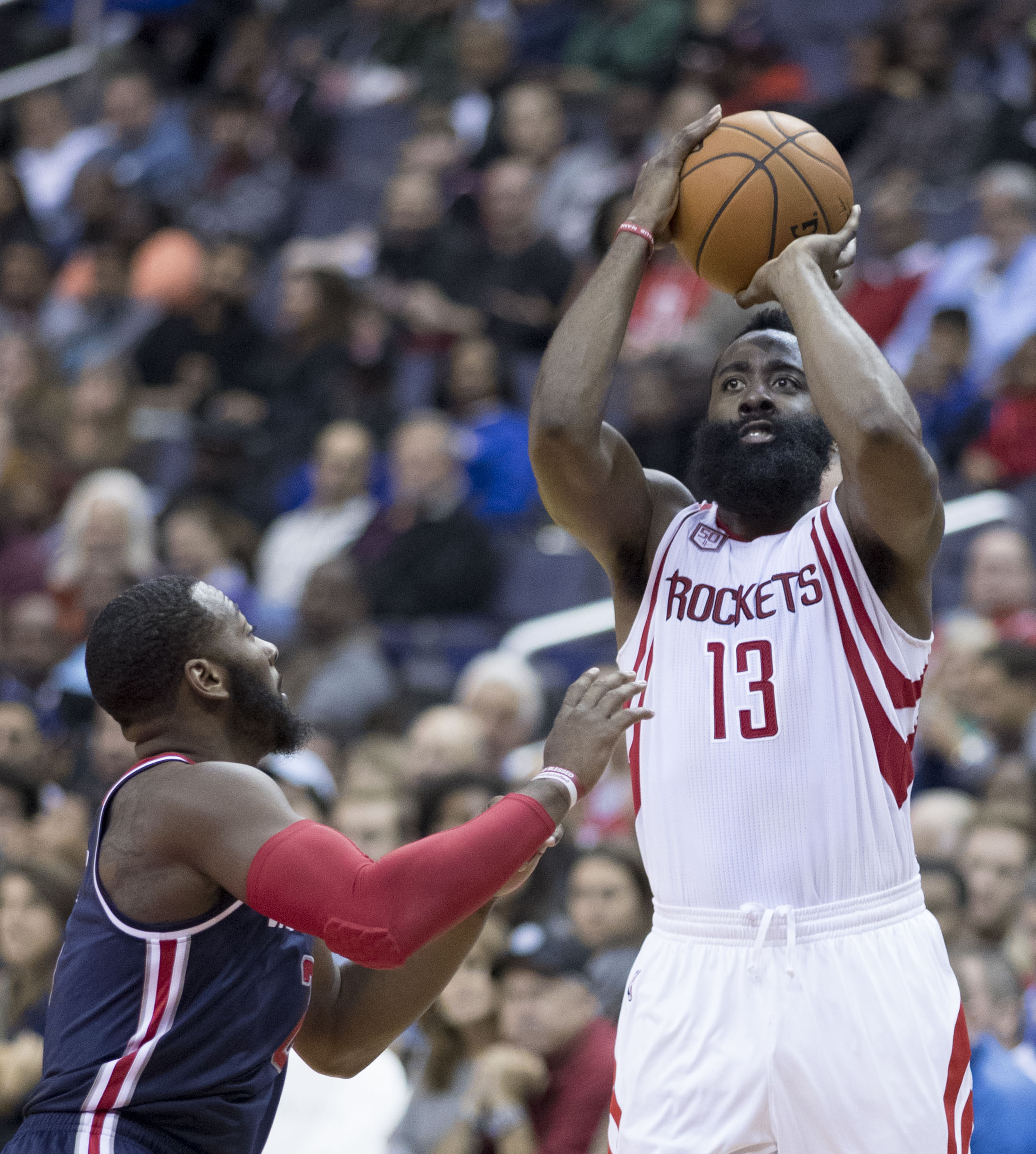 Rockets at Wizards 11/7/16